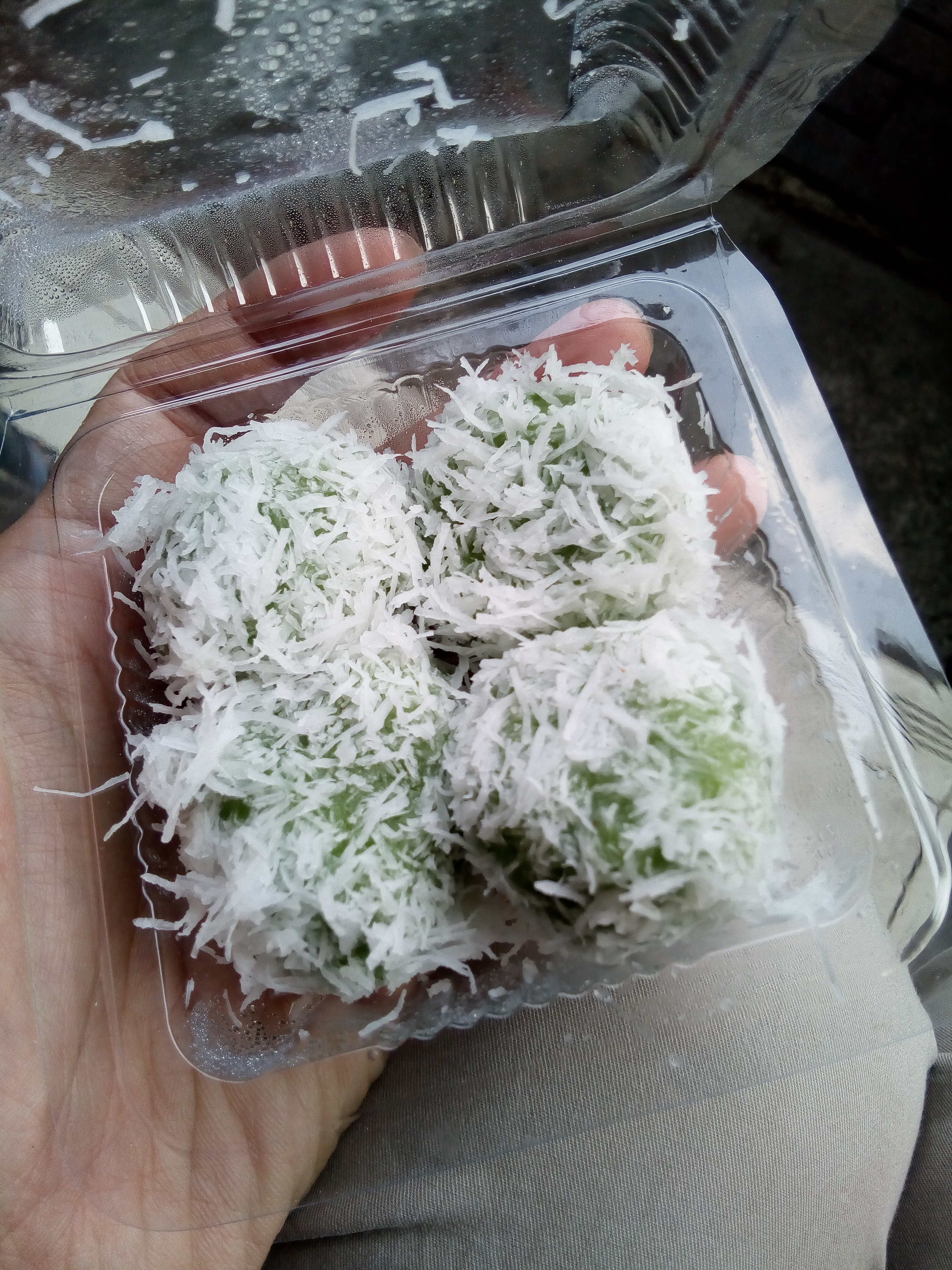 Klepons, pastry of Indonesia. be